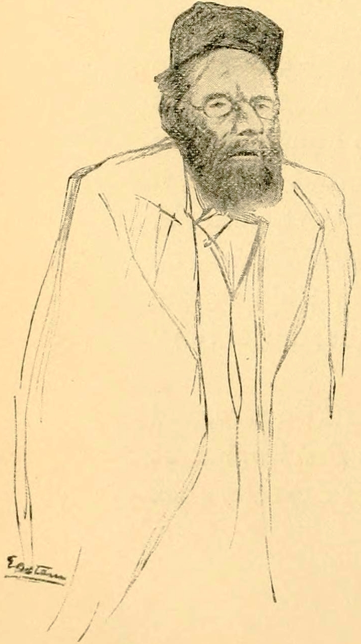 From :The spirit of the Ghetto; studies of the Jewish quarter in New York